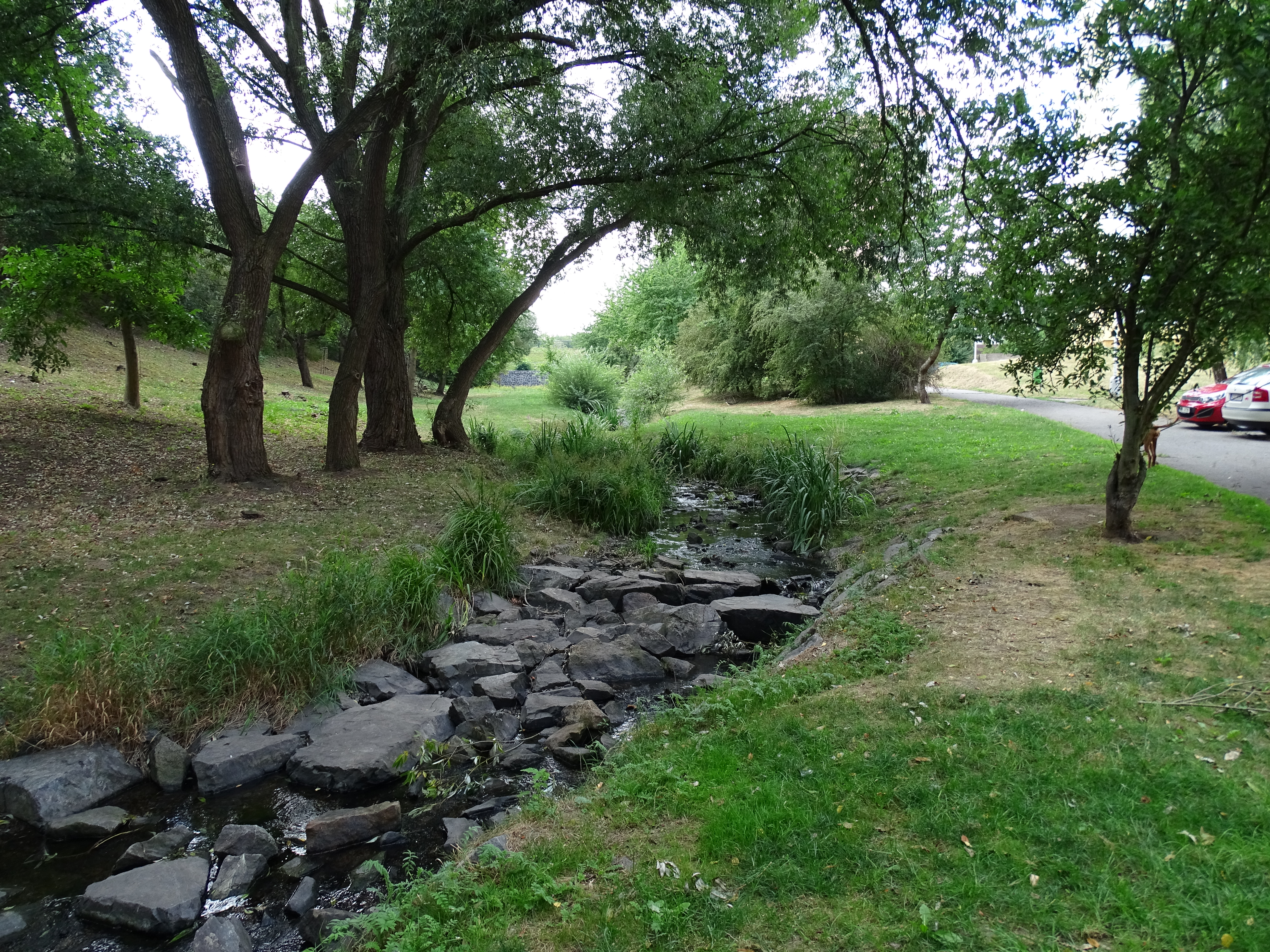 Prague-Záběhlice and Chodov, Czech Republic. Chodovecký potok.